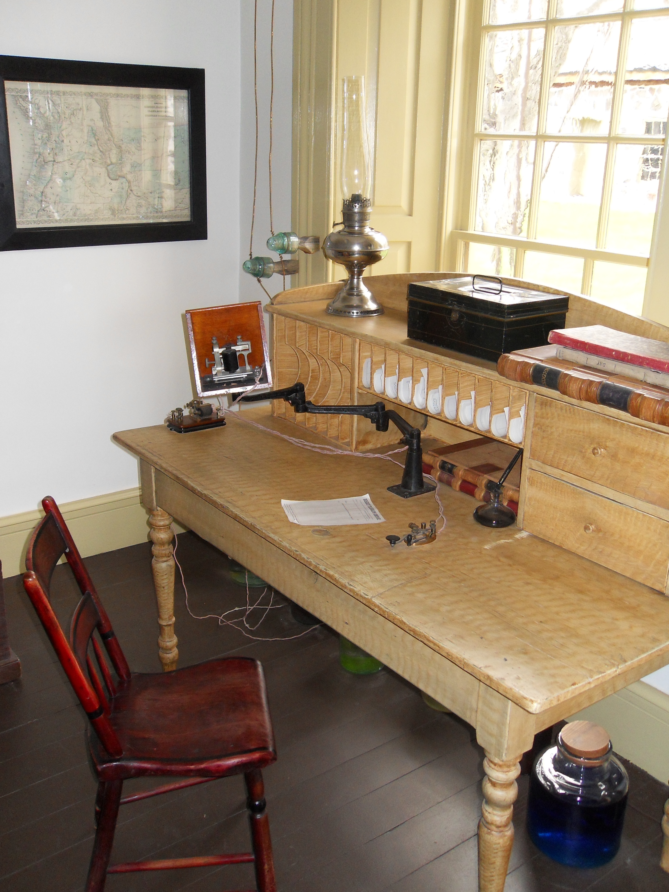 The restored telegraph office at Cove Fort in Utah. Under the desk is a wet cell battery used to power the equipment. The telegraph office was one of the many stations that were part of the Deseret Telegraph Company.